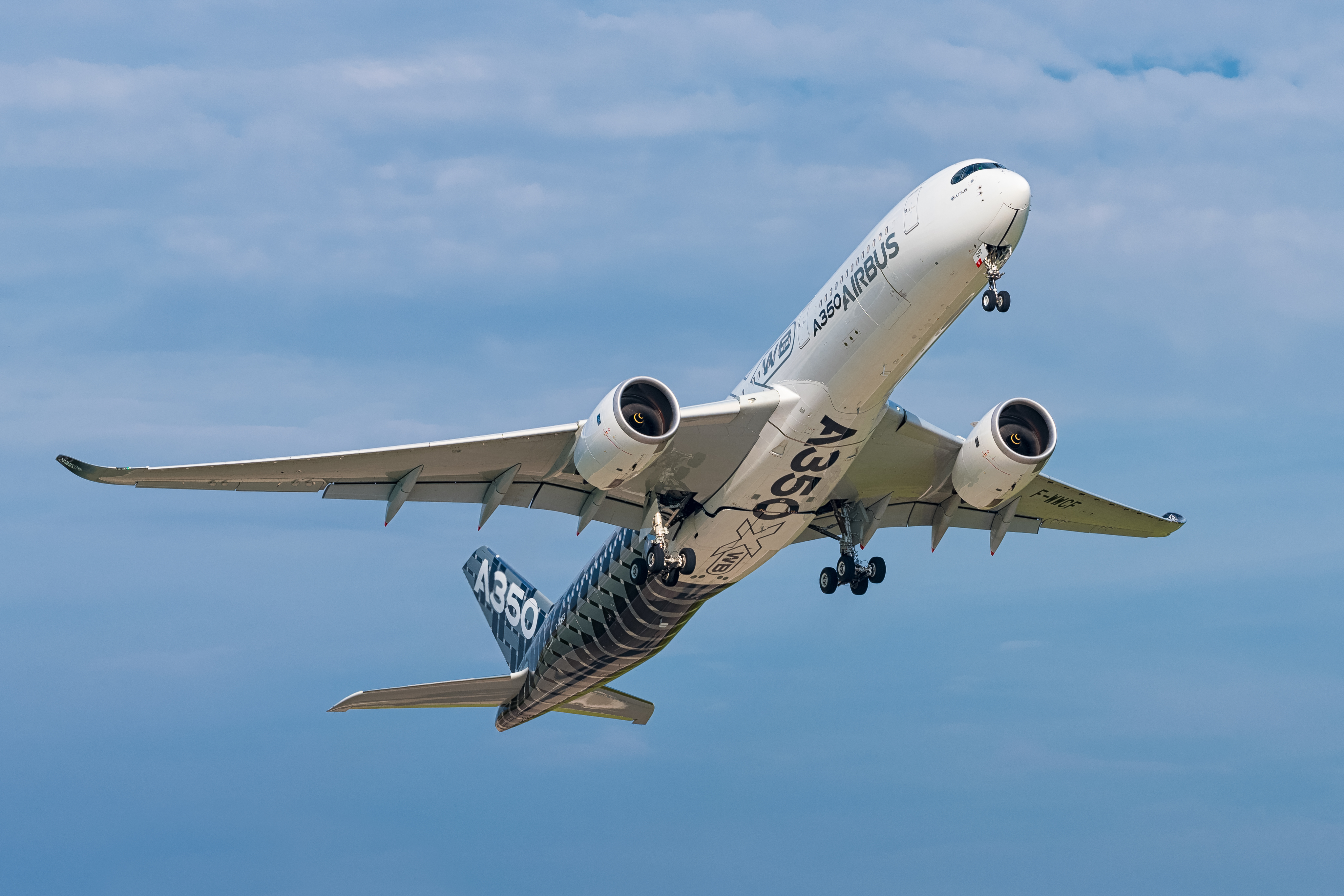 Airbus A350-941 (reg. F-WWCF, MSN 002) in Airbus promotional CFRP livery at ILA Berlin Air Show 2016.